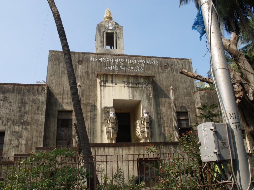 Zoroastrian temple in Bombay.